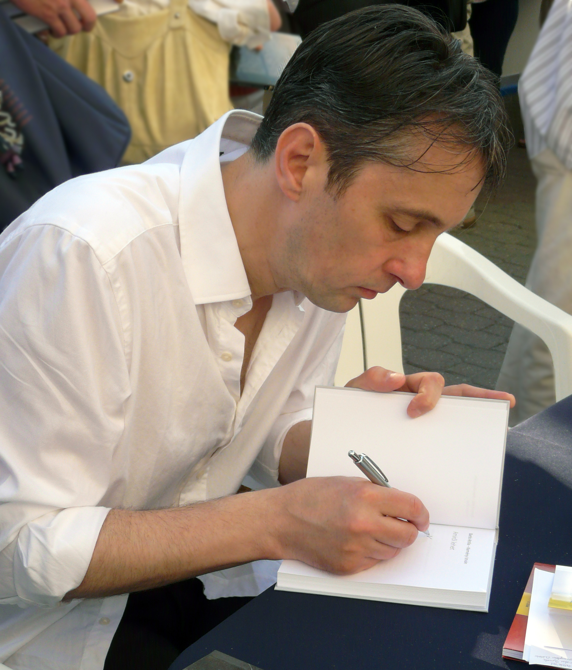 István Kemény, Hungarian writer. Bookfests in Budapest, Juin 2011.